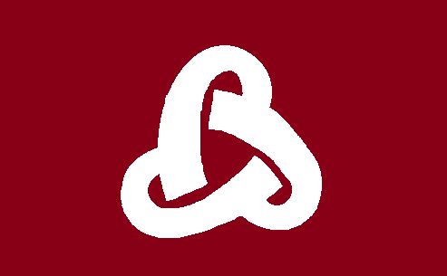 Flag of Mitsushima Nagasaki